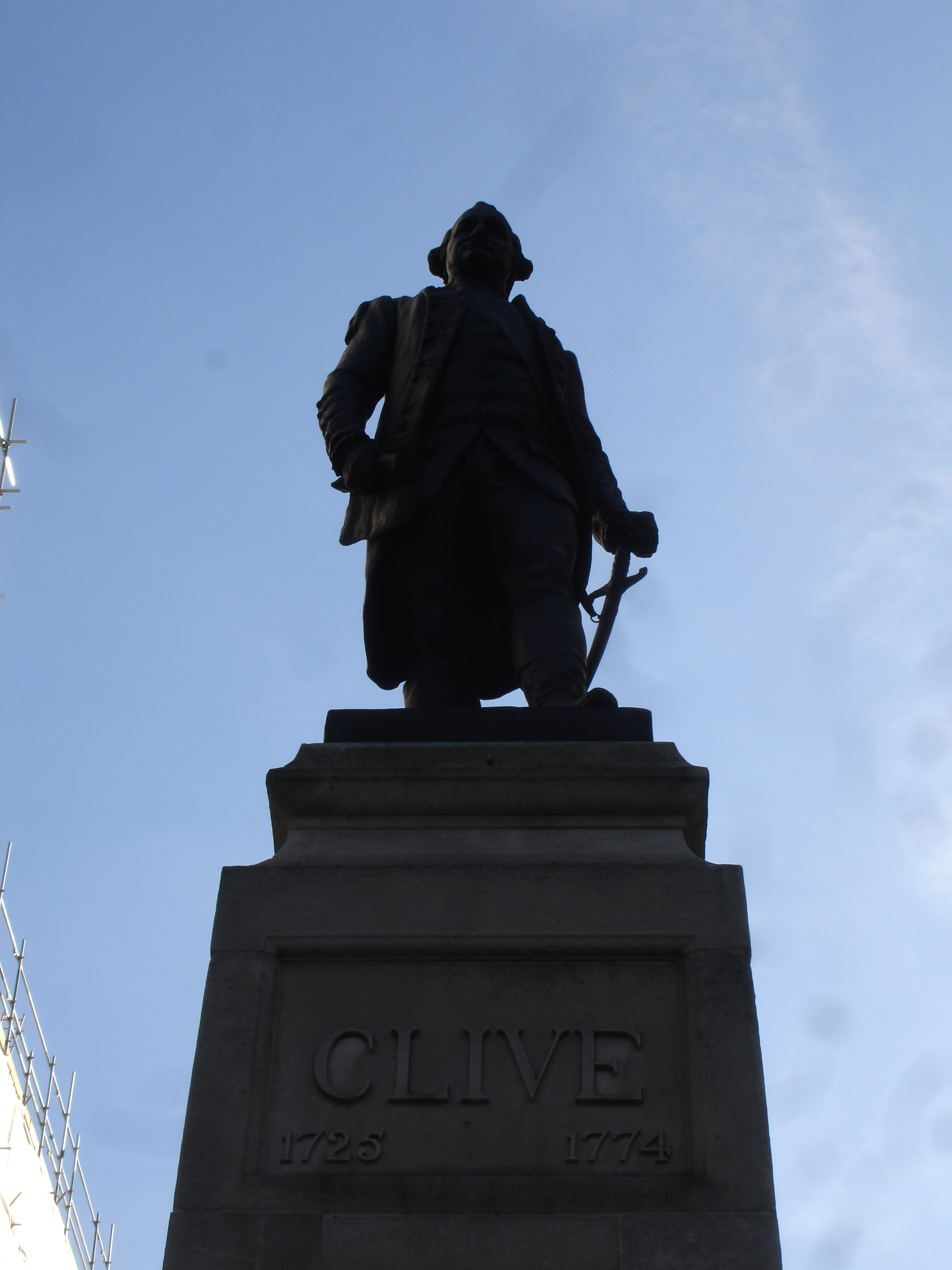 Monument to Robert Clive, 1st Baron Clive, King Charles St near St. James's Park Own Work March 2007